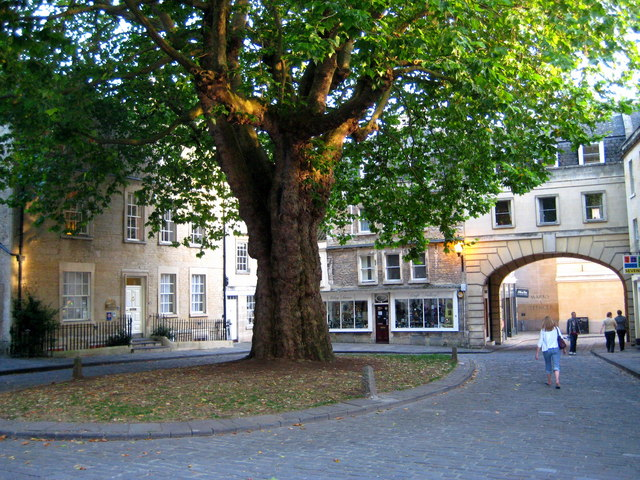 Abbey Green - Bath A quiet square not far from the Abbey. The house on the left is a 17th century town house and two other houses in the Green are also pre-Georgian from the Stuart area although the telling architecture has been mostly covered up with other decoration over the years. The plane tree in the centre was planted at the end of the 18th century. For - 35k - Similar pages